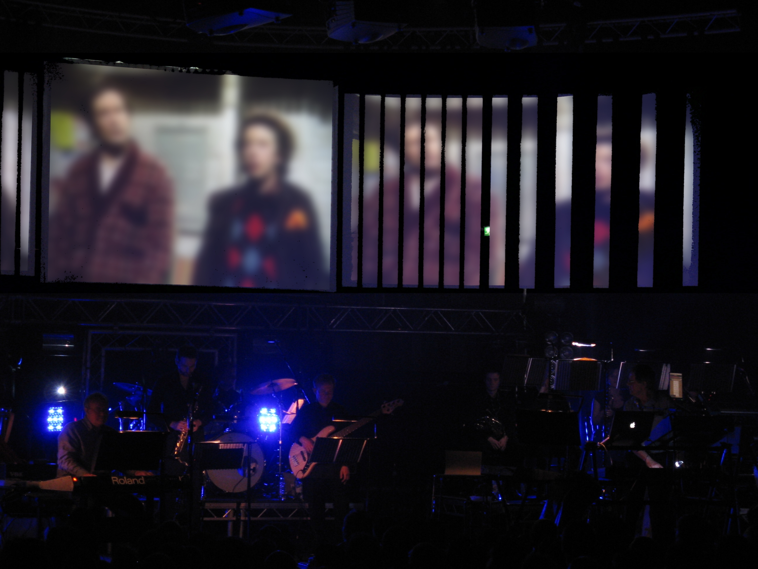 Southend Pier, BBC Radiophonic Workshop reunion live 2009 at the Roundhouse (2009-05-17).jpg Live performance of the incidental music to the Infinite Improbability rescue scene.